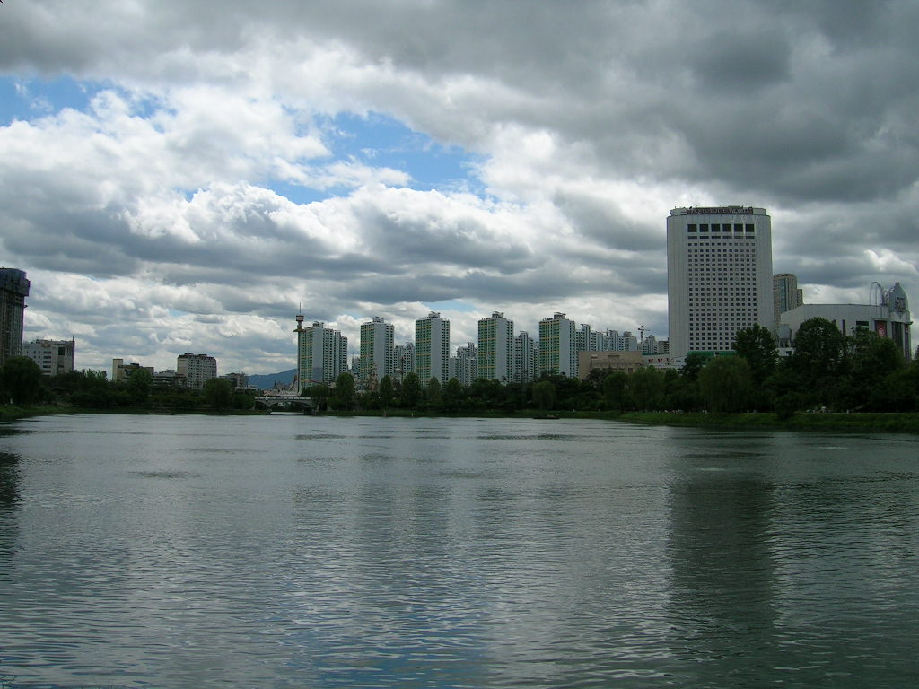 Seoul, South Korea